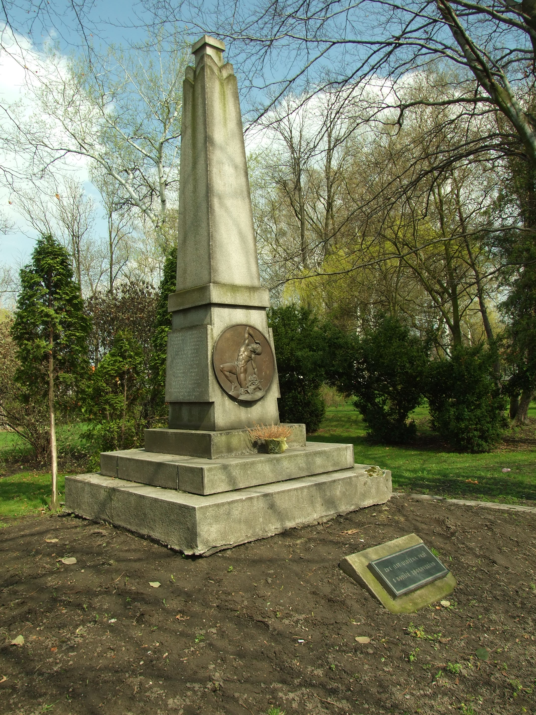 A memorial in Všetaty, Mělník District, Central Bohemian Region, CZ